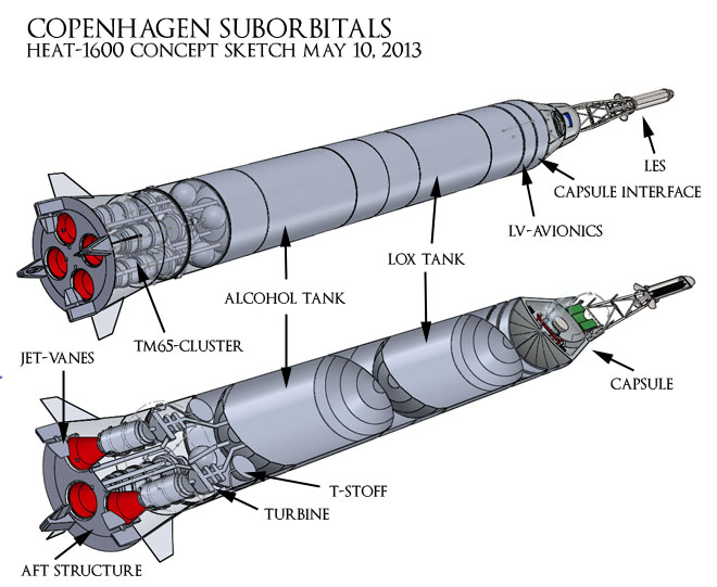 HEAT 1600 concept